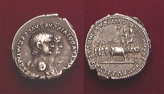 Nero & Agrippina Jr Denarius. 55 AD. NERO CLAUD DIVI F CAES AVG GERM IMP TR P COS, jugate busts of Nero & Agrippina / AGRIPP AVG DIVI CLAVD NERONIS CAES MATER, quadriga of elephants left with divinus Claudius, EX S C above. RSC 4.